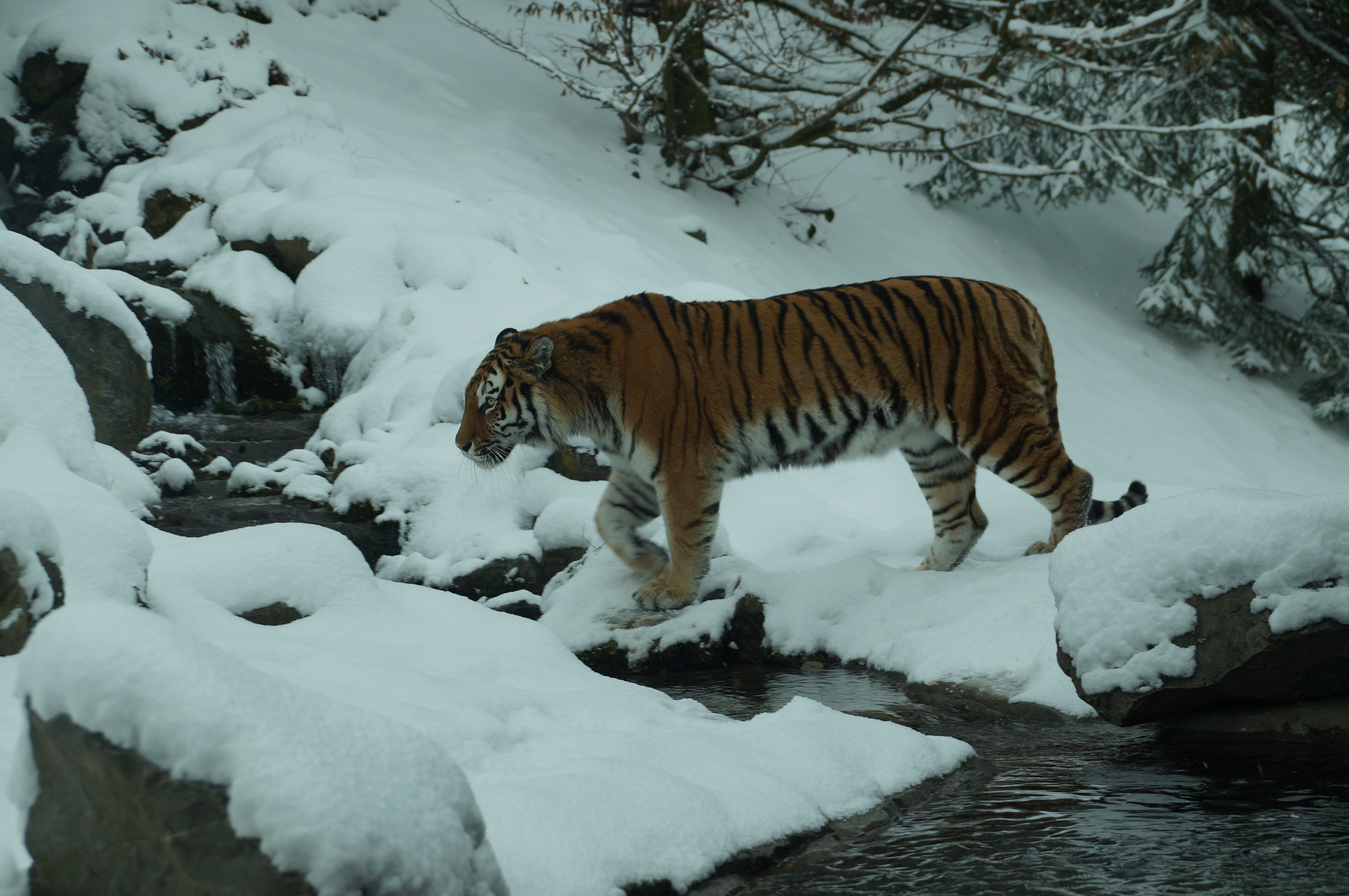 Panthera tigris altaica – Zoo Zürich